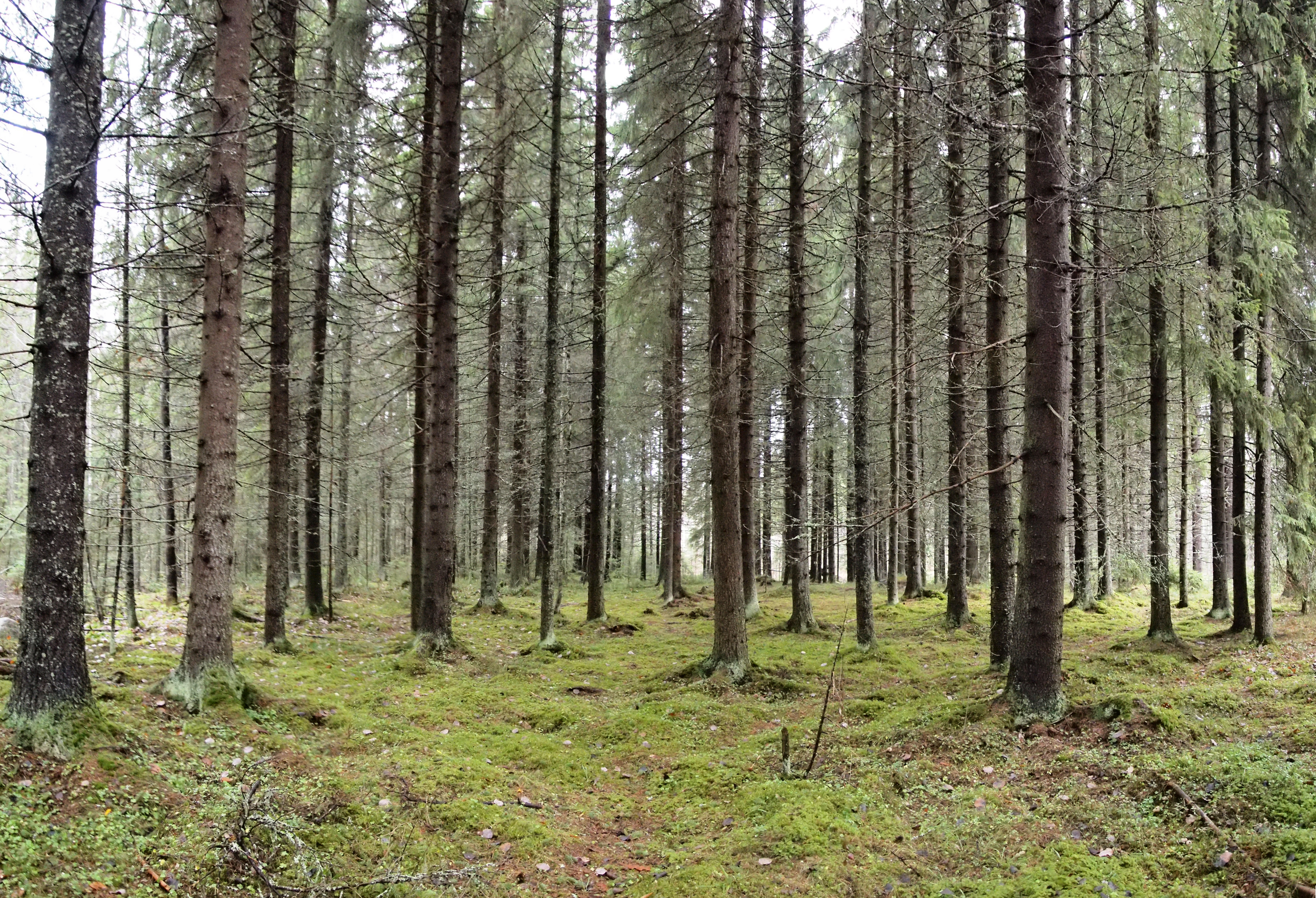 View in forest, Haukkamäki, Jyväskylä. The forest is situated between the streets Nuutinkorventie and Koppalankaari. This photograph was taken with a Olympus E-PL1.